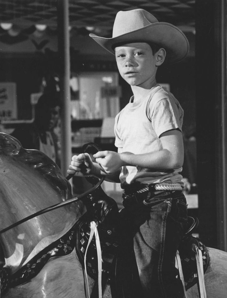 Publicity photo of American child actor, Billy Mumy promoting his guest-starring role on the episode of the NBC television series Alfred Hitchcock Presents entitled "Bang! You're Dead".